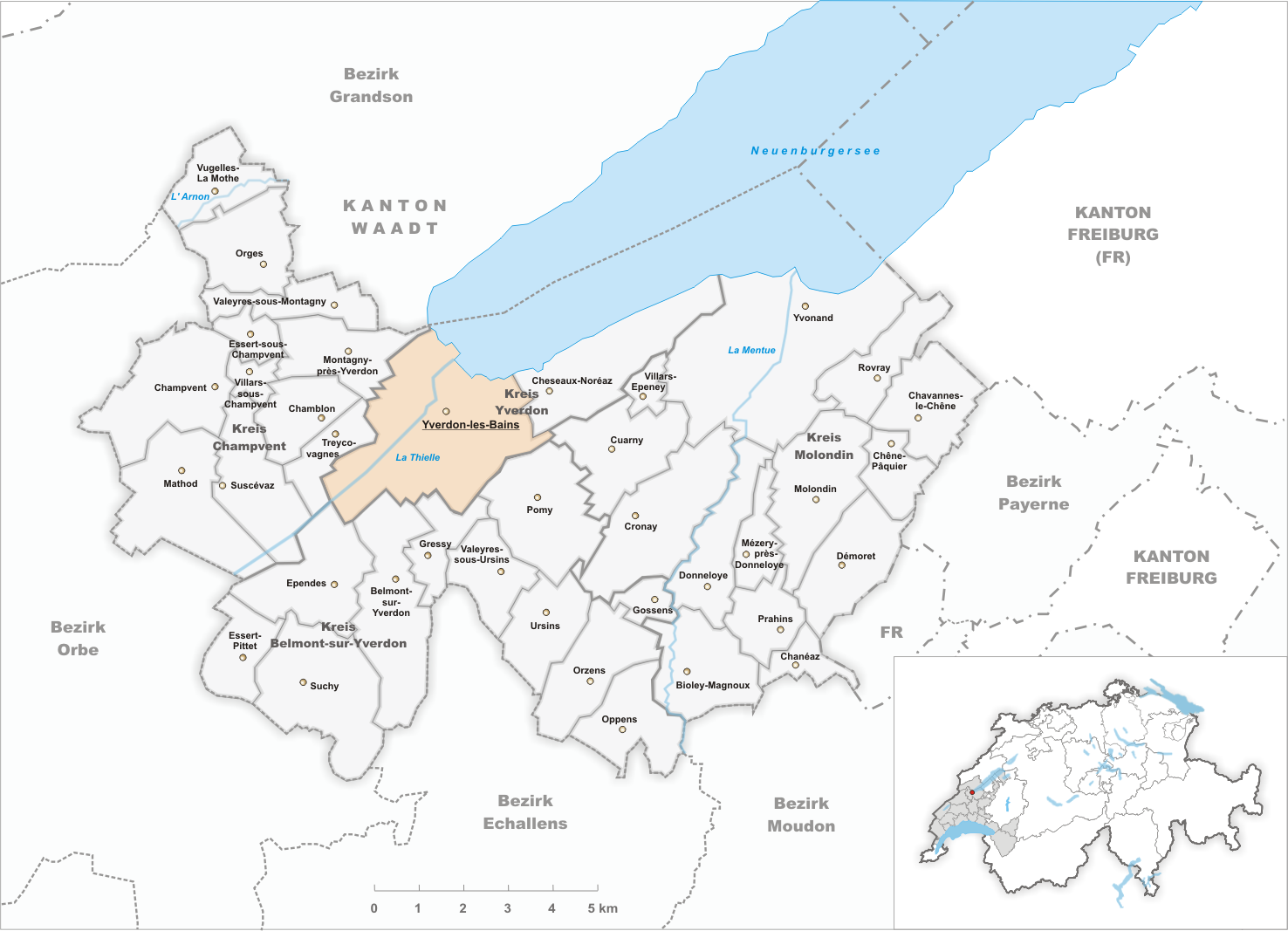 Municipality Yverdon-les-Bains